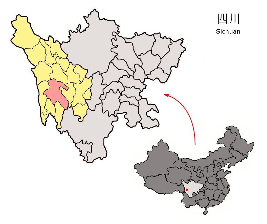 Location of Litang County (pink) and Garzê Prefecture (yellow) within Sichuan province of China Map drawn in september 2007 using various sources, mainly : Sichuan province administrative regions GIS data: 1:1M, County level, 1990 Sichuan Counties map from